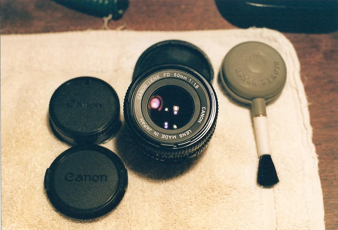 Canon FD lens, 50mm f-1.8, taken with Canon AE-1.